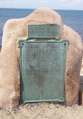 Plaque showing the names of the first settlers of Block Island, Rhode Island